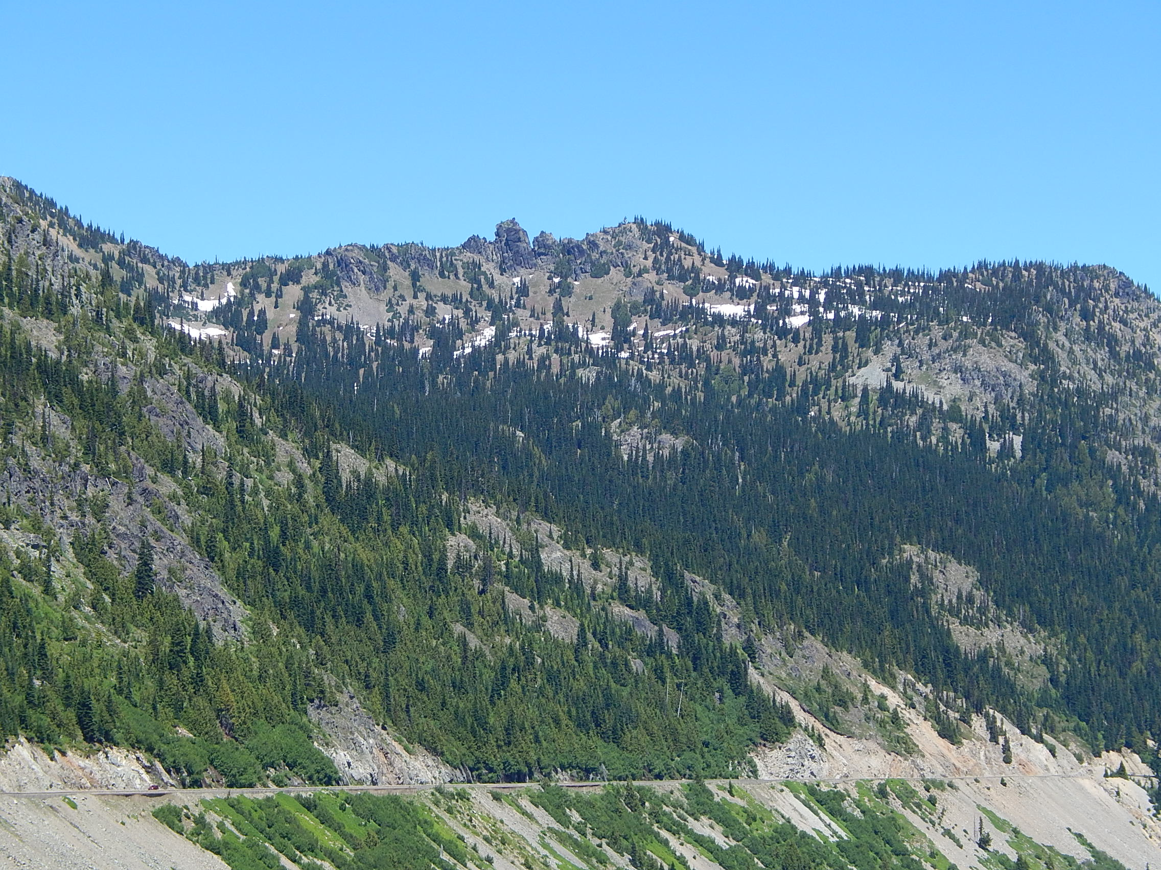 Cupola Rock seen from Chinook Pass in Washington state